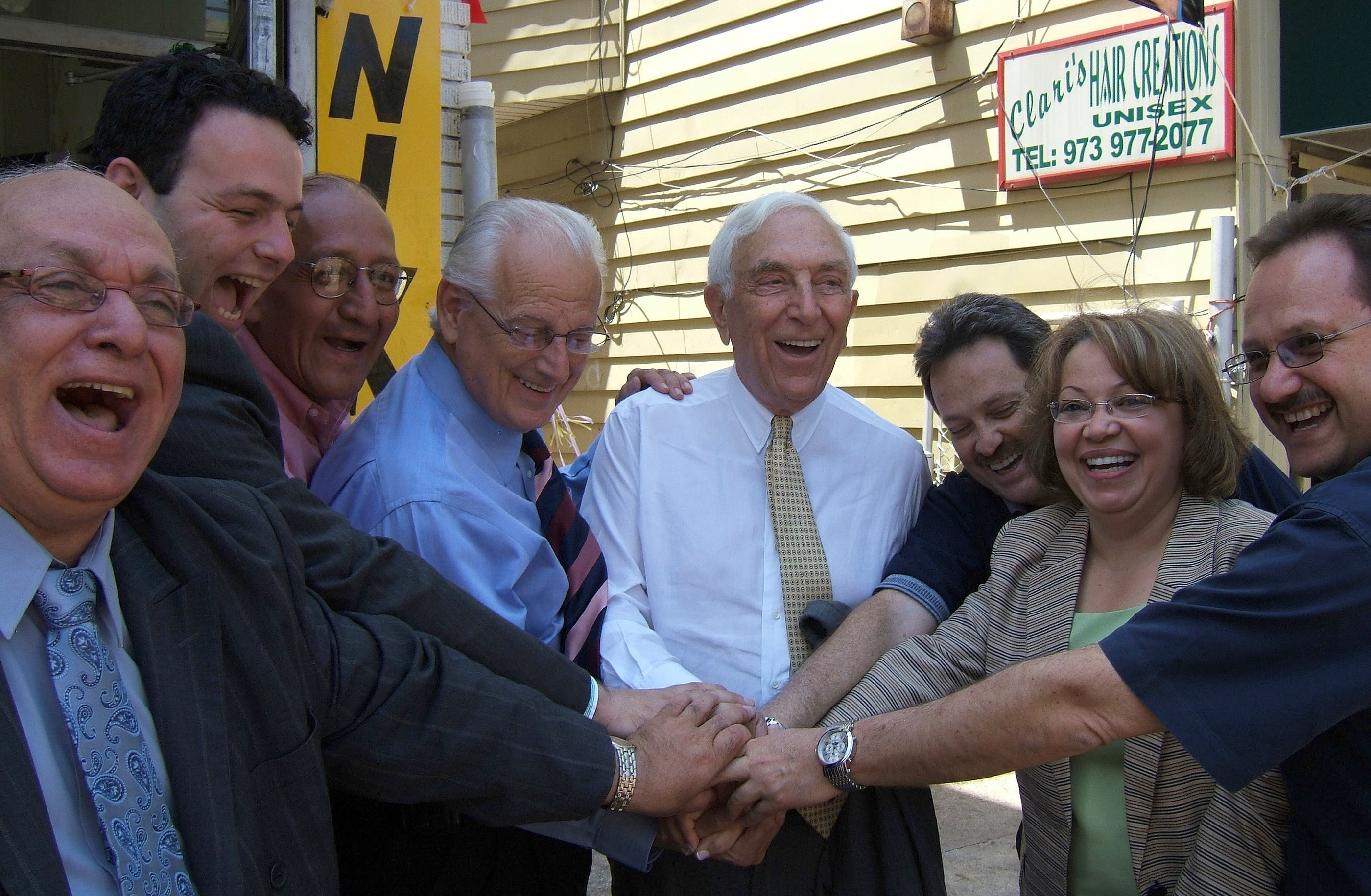 U.S. Senator Frank Lautenberg (D-NJ) and U.S. Representative Bill Pascrell (D-NJ,) both native Patersonians, campaign along 21st Avenue in Paterson with my friend and Councilman-Elect Andre Sayegh. The others in the photo are friends of mine, too, and local business people from our recent City Council campaign. Lautenberg and Pascrell each won their respective primary contests in New Jersey yesterday, June 4, 2008, the same day Senator Barack Obama earned the Democratic nomination for President. Lautenberg won easily and Pascrell was unopposed. I had to compete for "photo-space" with a guy from the Herald-News who kept elbowing me out of the way. I was fortunate to get this shot since I only had a few seconds to do so and was being jostled all over by the Herald-News photographer. On the other hand, i gave the newspaper photographer a dirty look and a snide correction when he inappropriately called Andre, "Andrew".